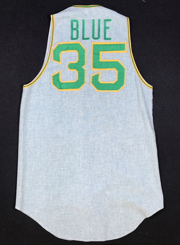 1970 Oakland Athletics #35 Vida Blue Game Worn Road Jersey restored and photographed by William F. Henderson. For more information and to contact me, see my website